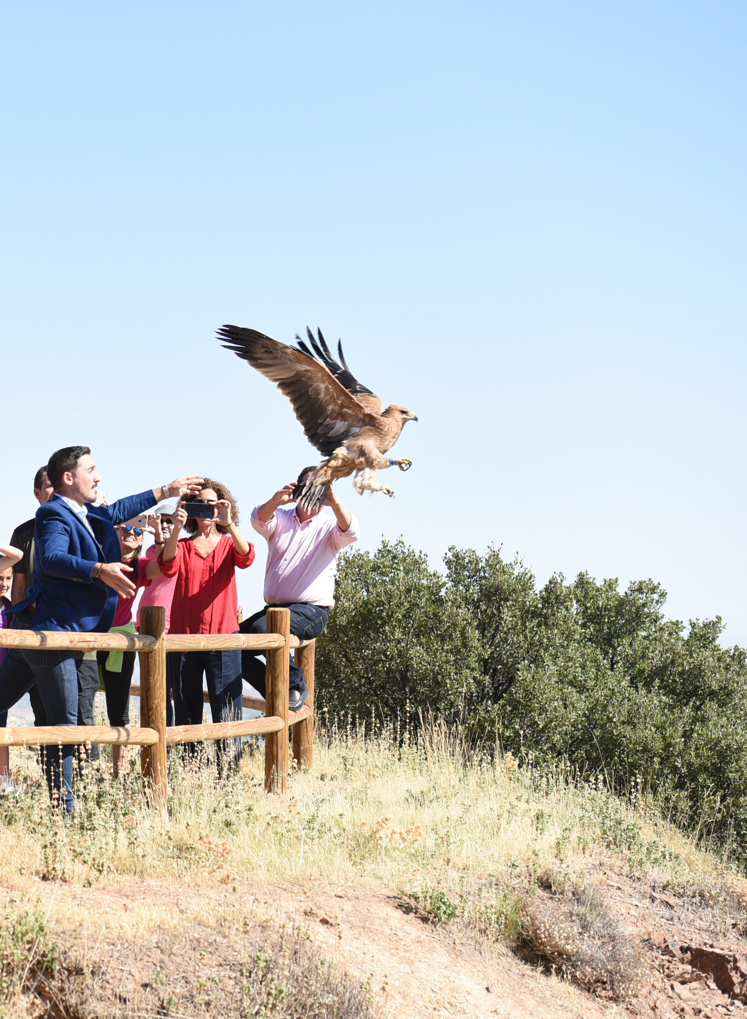 NOEZ (Toledo), 30 de septiembre de 2019.- El consejero de Desarrollo Sostenible, José Luis Escudero, participa, en el Cerro de Noez, en la liberación de dos águilas imperiales. (Fotos: José Ramón Márquez // JCCM)